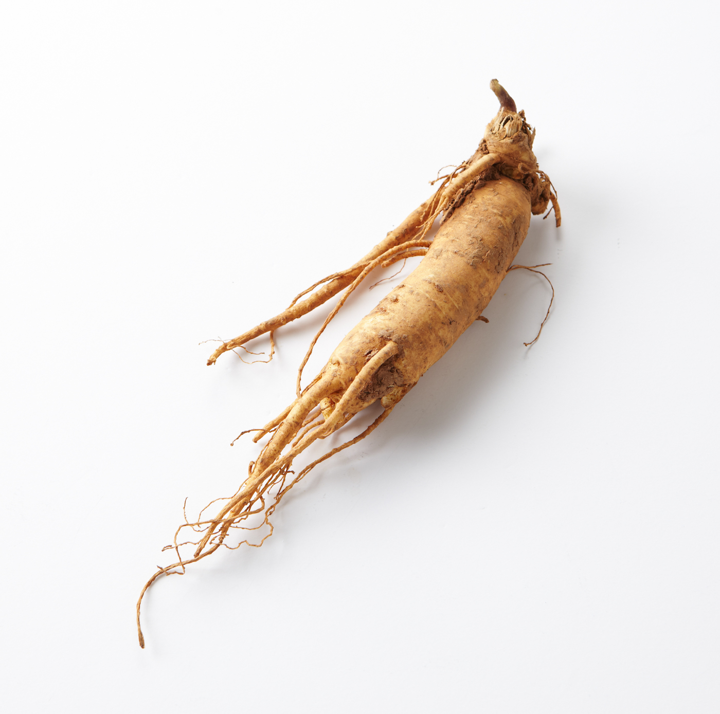 Insam (ginseng)